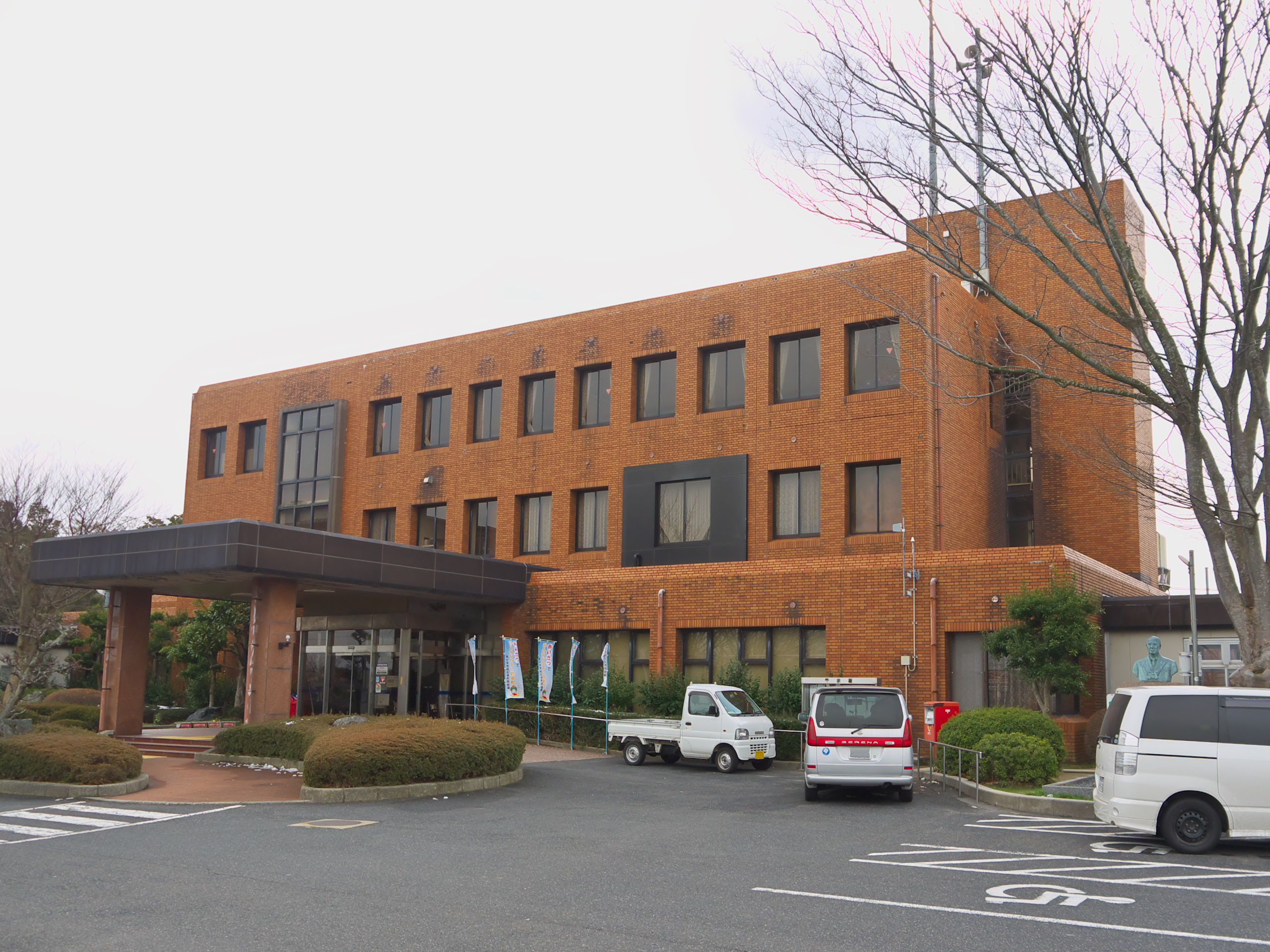 Hokuei town office Daiei office building, Tottori prefecture (Former Daiei town office)